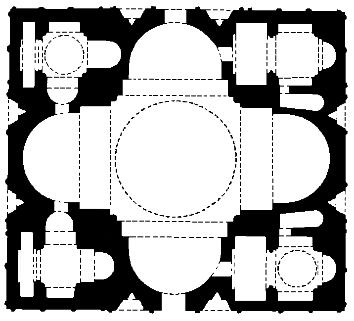 Plan of Araqeloc church in Ani